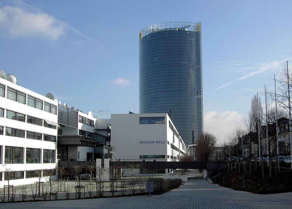 Deutsche Welle headquarters in the Schürmann building in Bonn. In the background, the Post Tower, HQ of Deutsche Post can be seen.